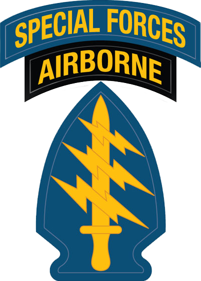 Insignia of the US Army Special Forces